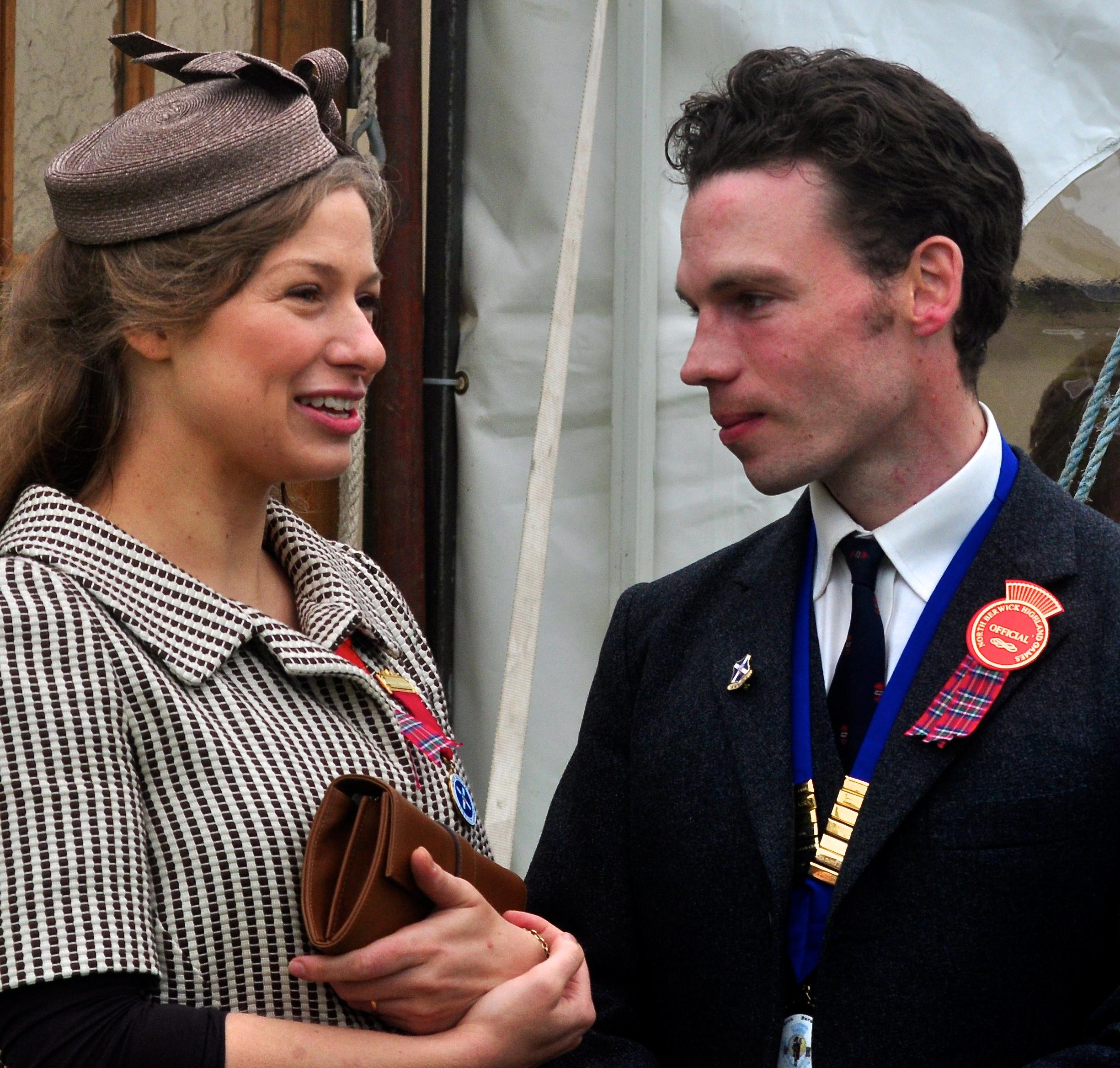 The Duke and Duchess of Hamilton, the premier peers of Scotland, congratulating winners at the North Berwick Highland Games.